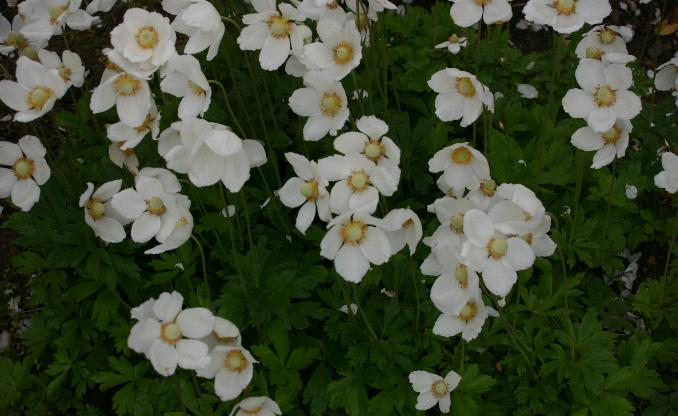 Anemone sylvestris: flowers and leaves.